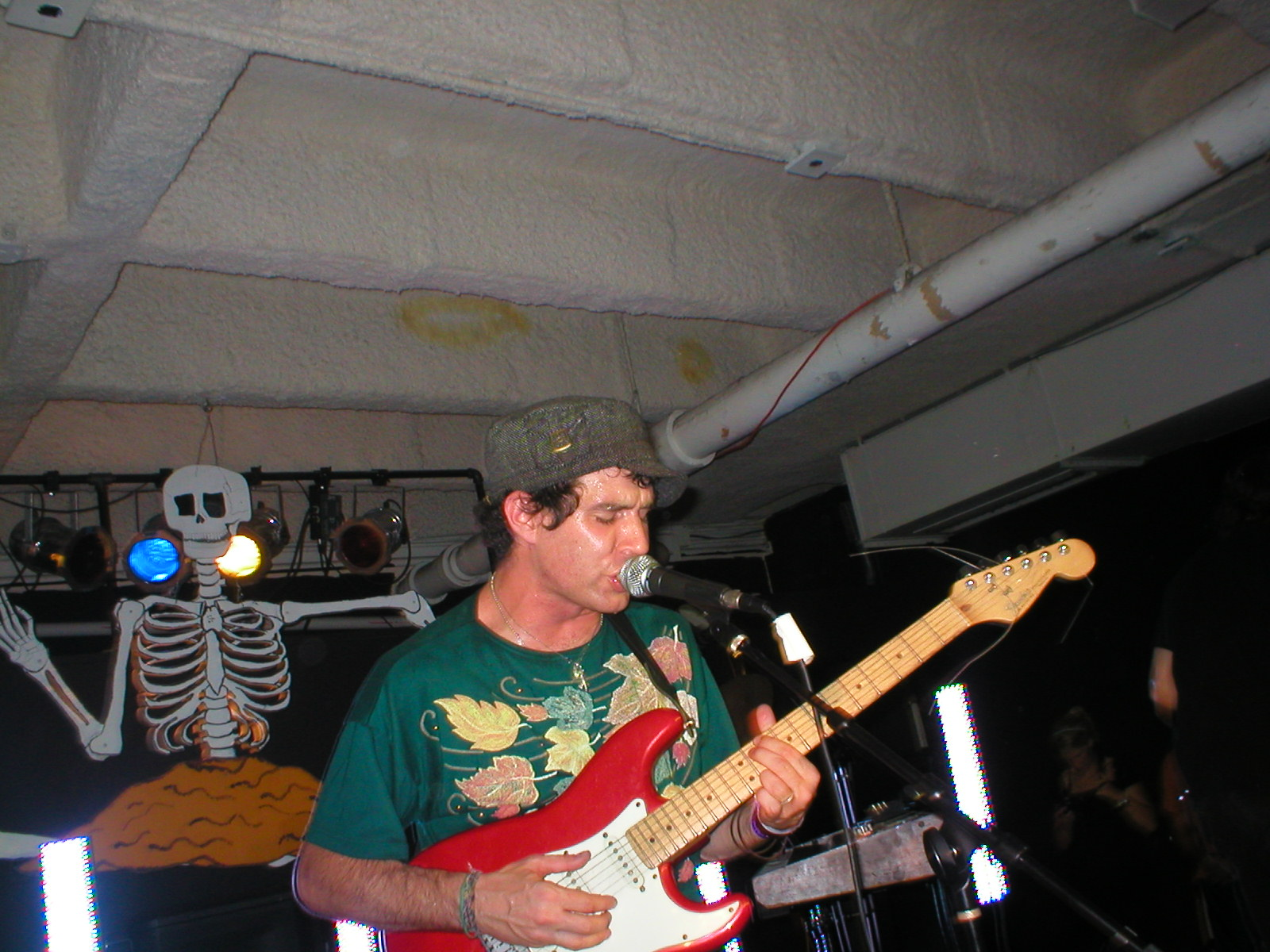 Image from live show